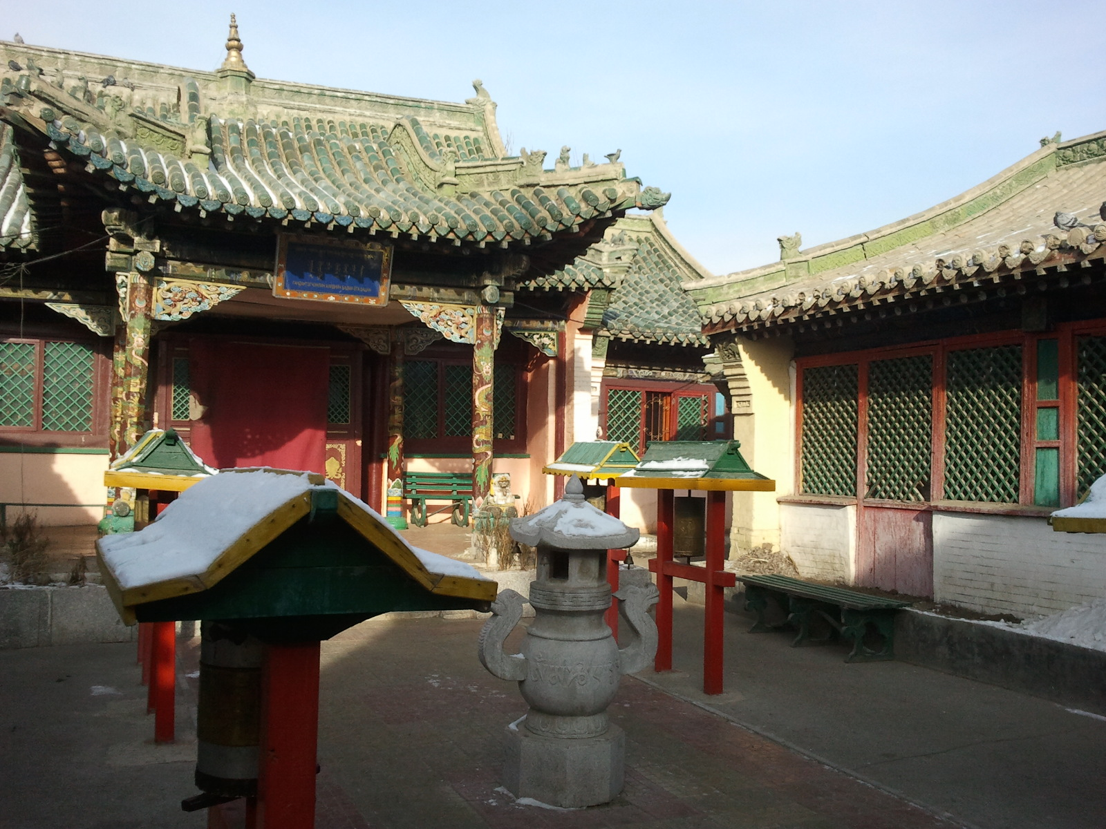 Geser Temple in Ulan Bator, built in 1919–1920 by Guve Ovogt Zakhar.